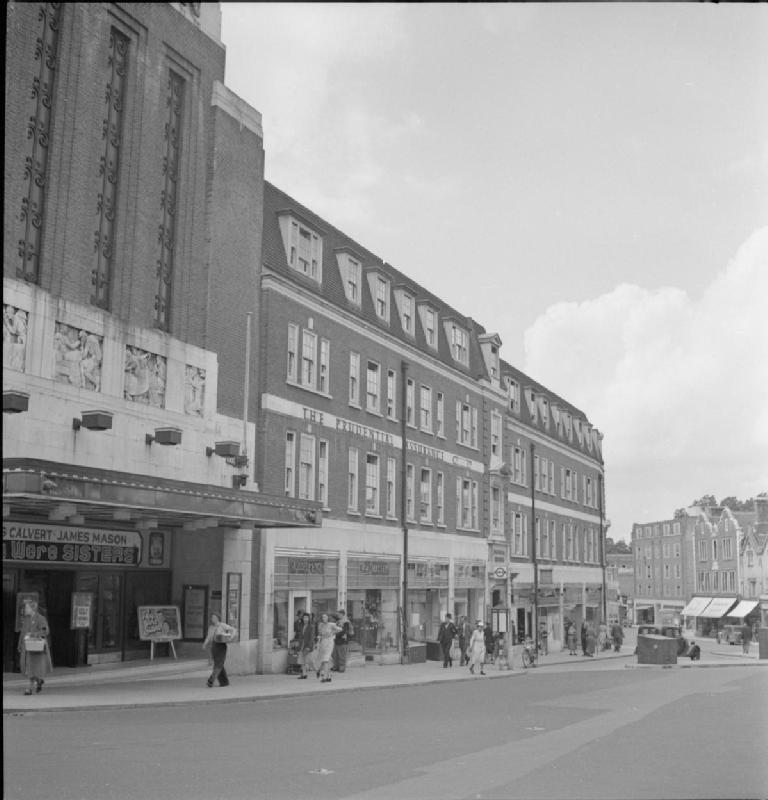 Guildford- Everyday Life in Wartime Guildford, Surrey, England, UK, 1945 A general view of part of London Road in Guildford. Clearly visible is the cinema, showing the film They Were Sisters (1945) starring James Mason, and the Prudential Assurance Co. Ltd building. Shops in the Prudential building include 'Mussell and Son' and 'Wm. Massey'. A bus stop is clearly visible in the centre of the photograph and several pedestrians can be seen going about their daily business.